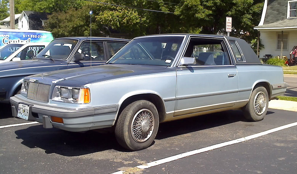 1986 Chrysler LeBaron coupe photographed in Lansing, Michigan.